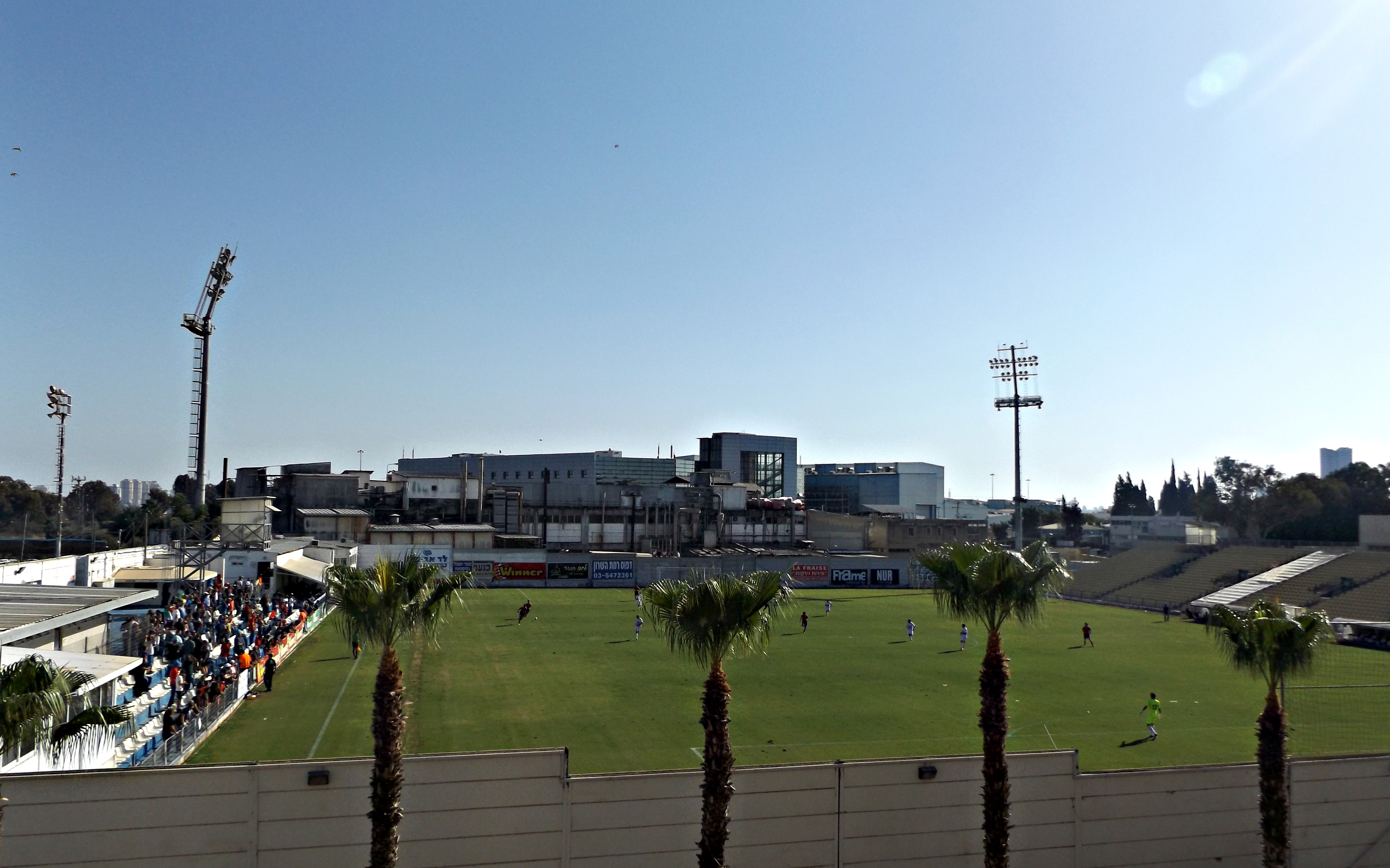 אצטדיון גרוטמן רמת השרון הפועל ניר לירז כהן